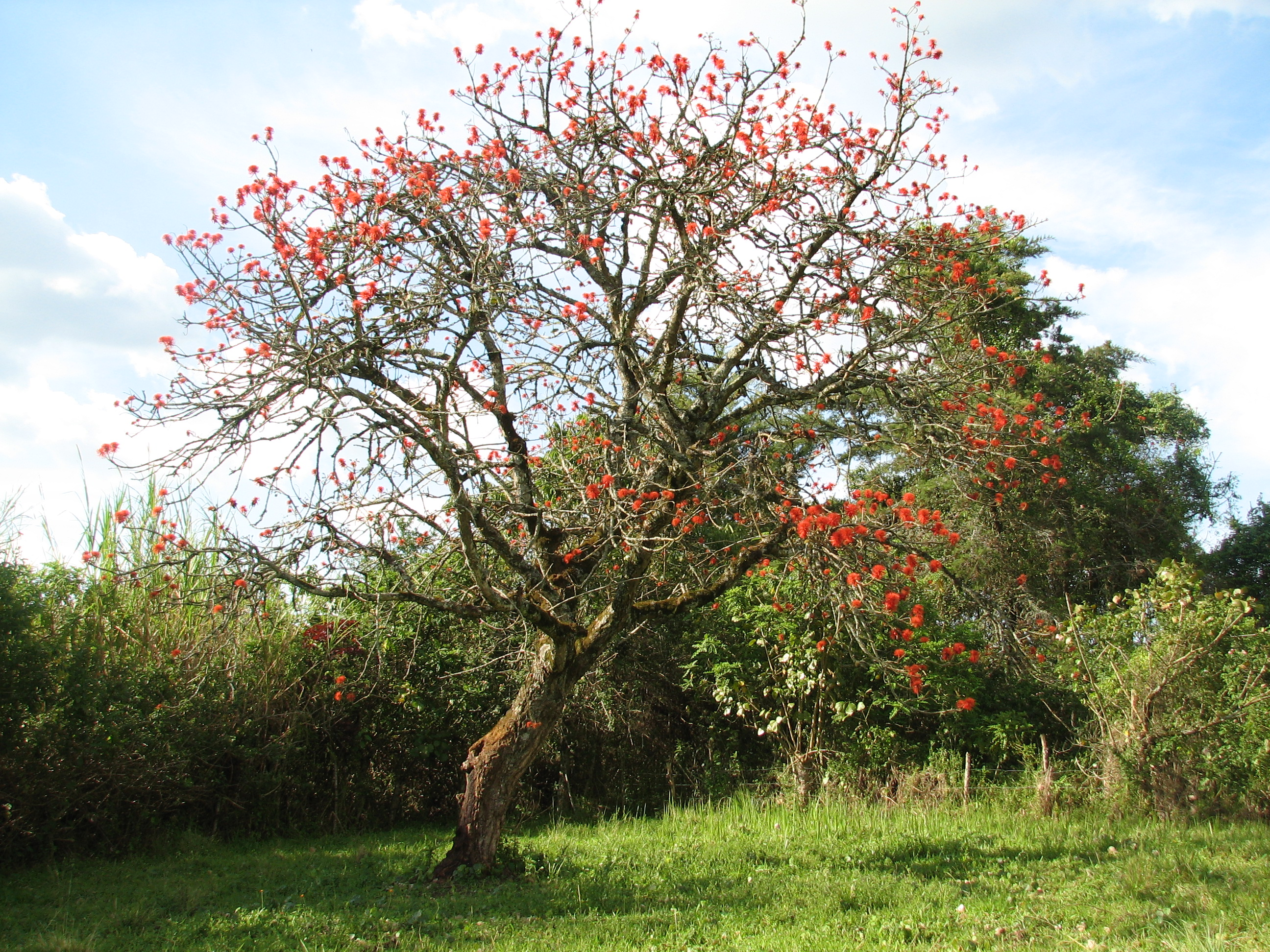 Erythrina abyssinica Flame trees are indigenous to East Africa. They are absolutely when in full bloom, particularly against the verdant backdrop of western Uganda's rolling hills. This photo doesn't do it justice. Local names include mwamba-ngoma (Kiwswahili); muyirikiti (Luganda); mriri (Chagga). Interesting fact: the bark is a traditional remedy for gonorrhoea.